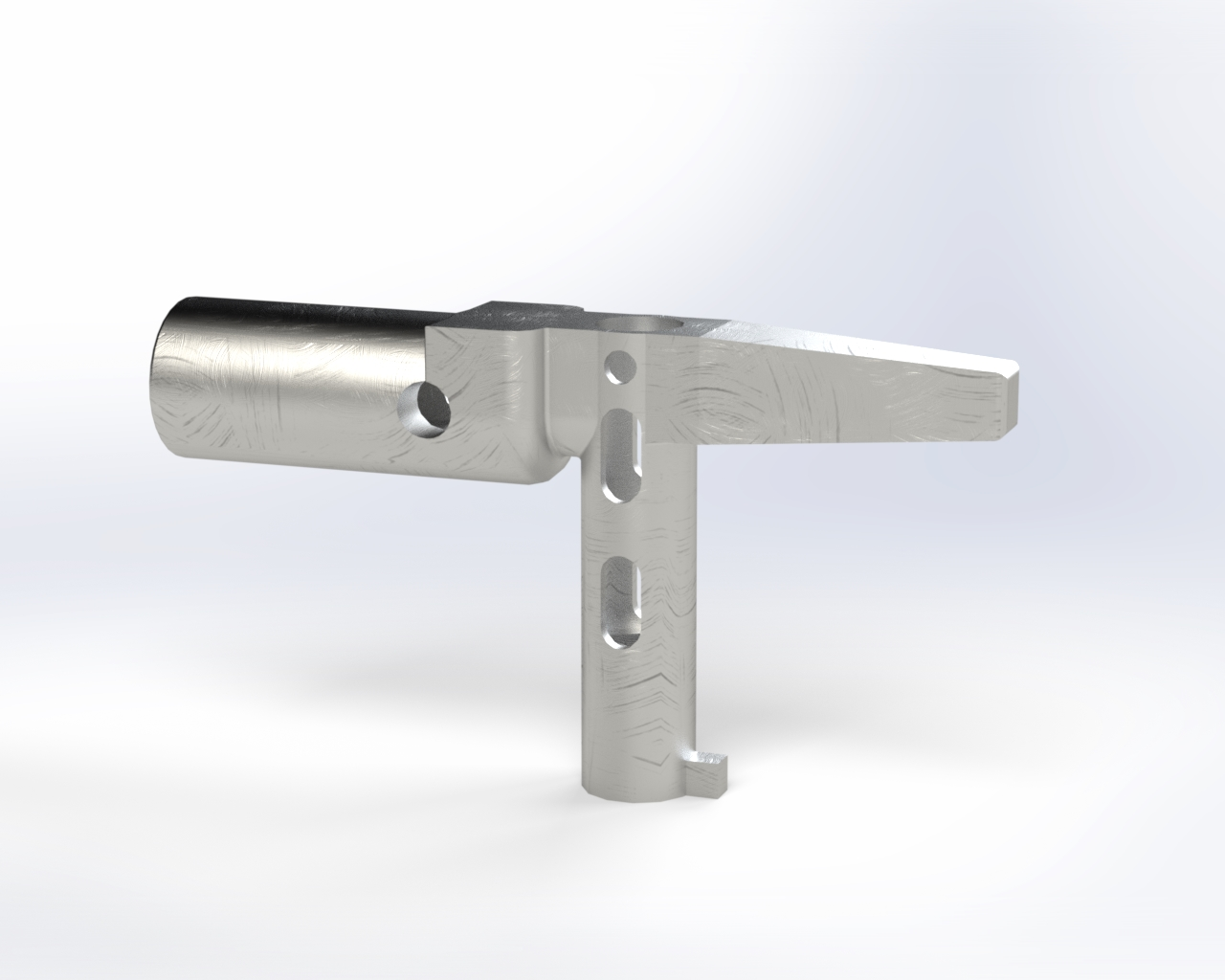 3d model of the Dutch railway key